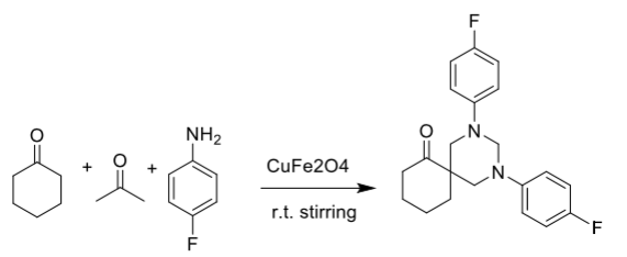 One-pot synthesis of fluorine containing spirohexahydropyrimidine derivatives. Adapted from the article -RSC Advances, 2013. 3(9): p. 2924-2934